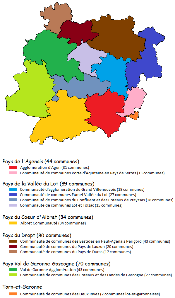 Map of the groups of communes of the Lot-et-Garonne